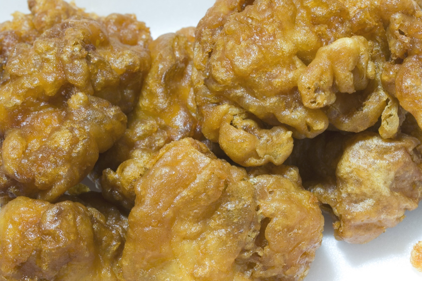 These are fried chicken "Kara-age"